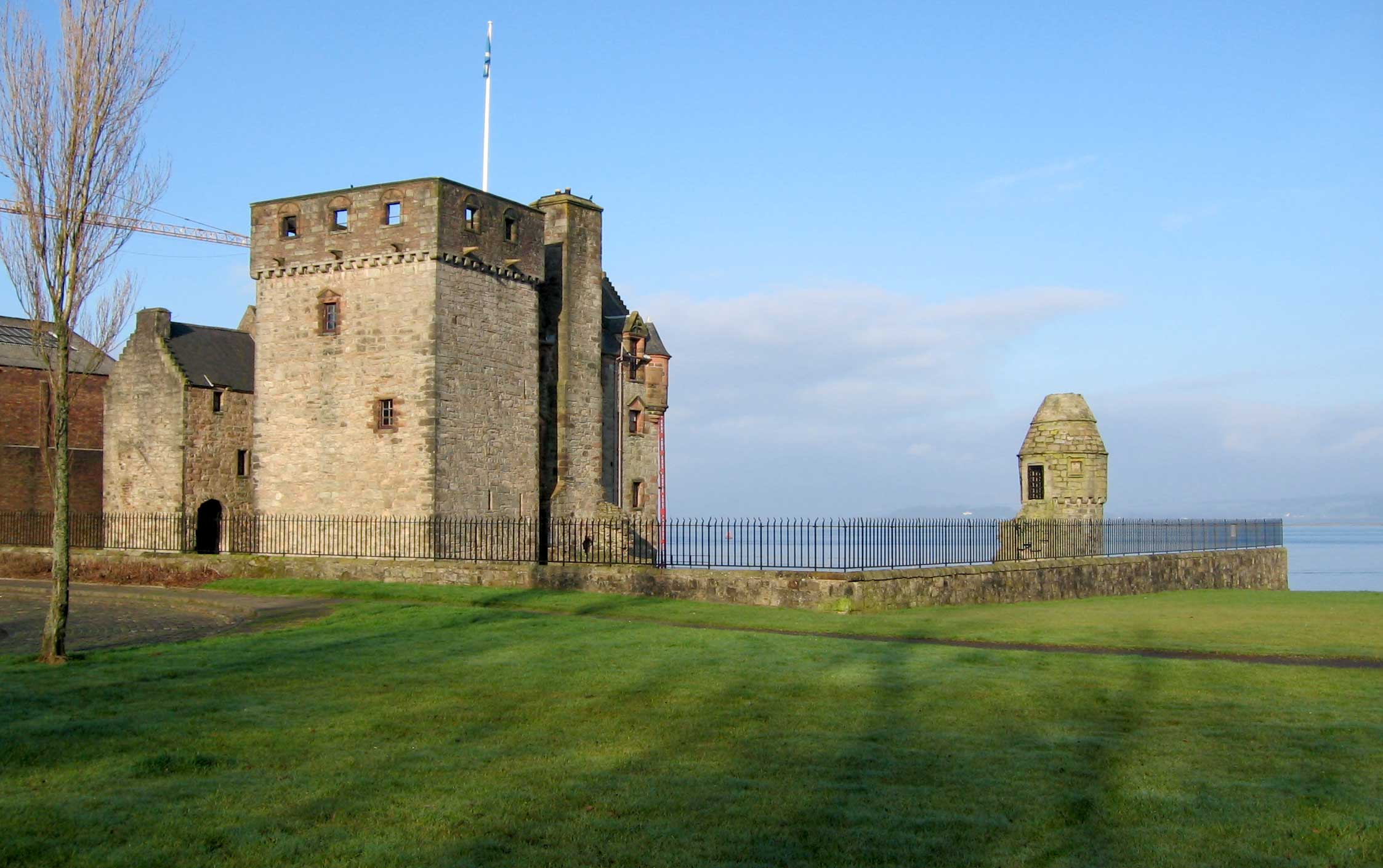 Newark Castle, Port Glasgow. photograph taken in February 2006 by User:Dave souza. Any re-use to contain this licence notice and to attribute the work to User:Dave souza at Wikipedia.